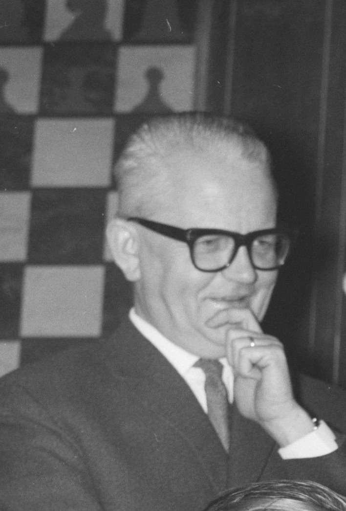 Dutch mayor of Beverwijk, J.G.S. Bruinsma in 1961